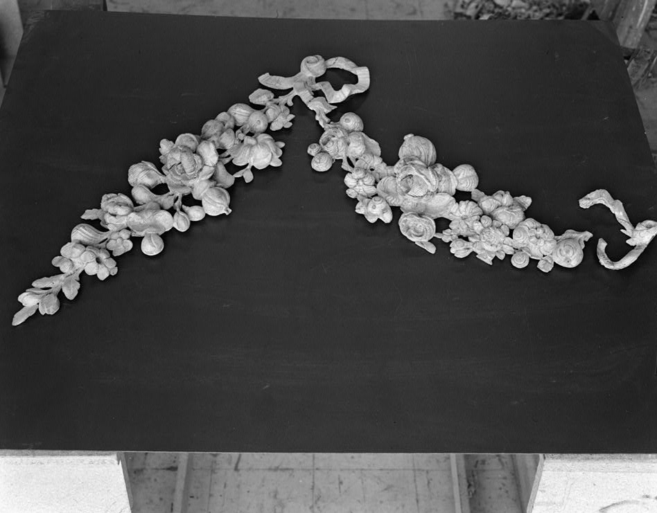 Main Elevation, Detail Of Entrance Decoration, Flower Festoon From Spandrel (Under Restoration), Hammond-Harwood House, 19 Maryland Avenue & King George Street, Annapolis, Anne Arundel County, MD